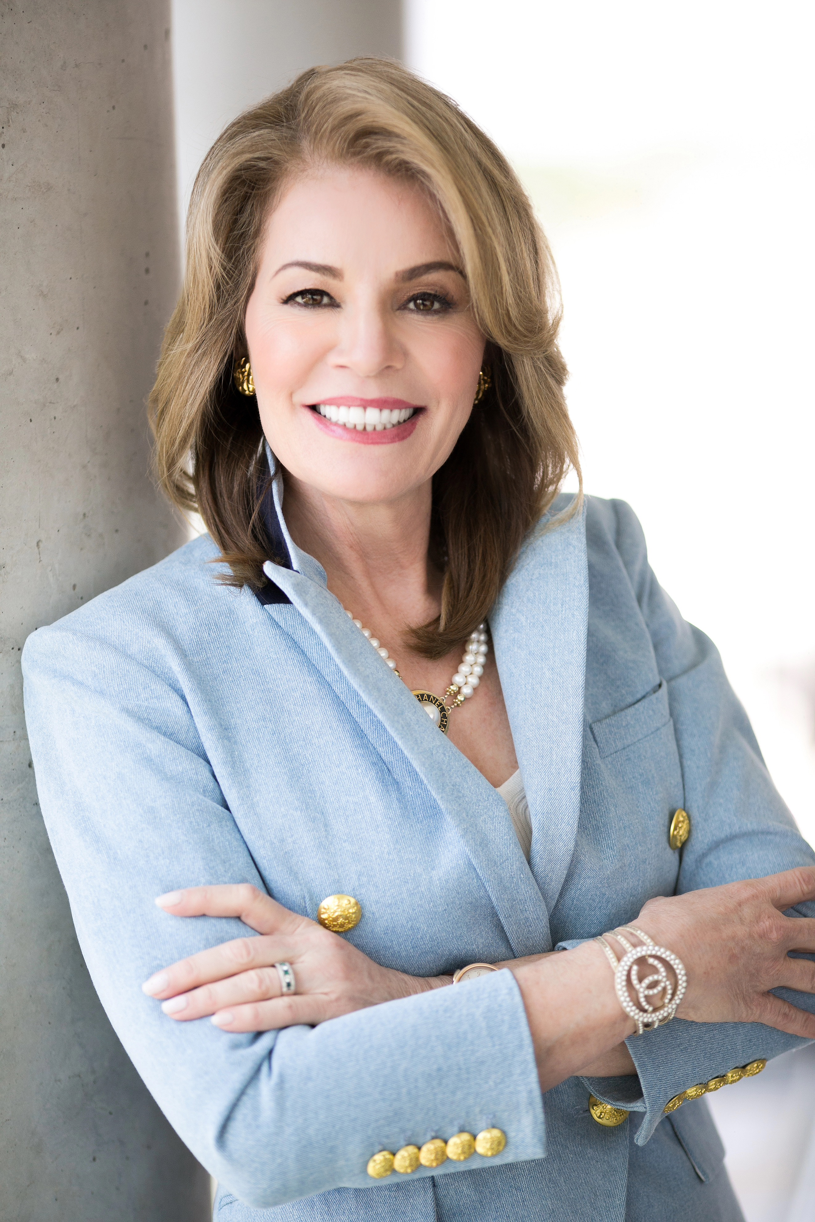 A profile picture of Teresa Carlson, Vice President, Worldwide Public Sector, Amazon Web Services